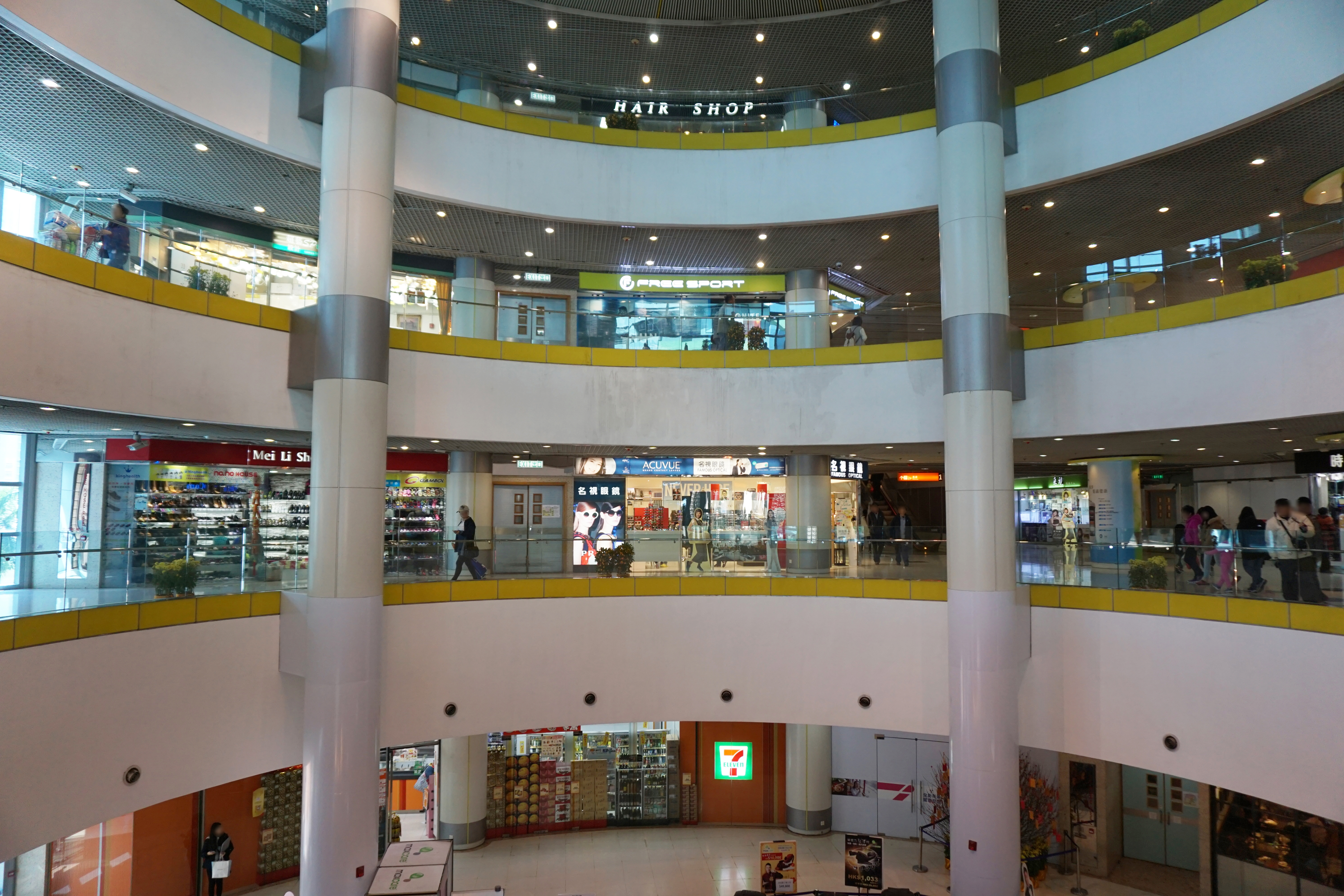 Tin Chak Shopping Centre in Tin Shui Wai, Hong Kong.